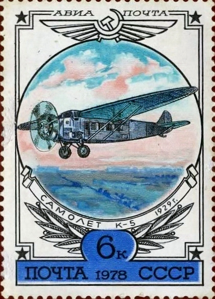 1978 Soviet Union 6 kopeks stamp. Kalinin K-5.